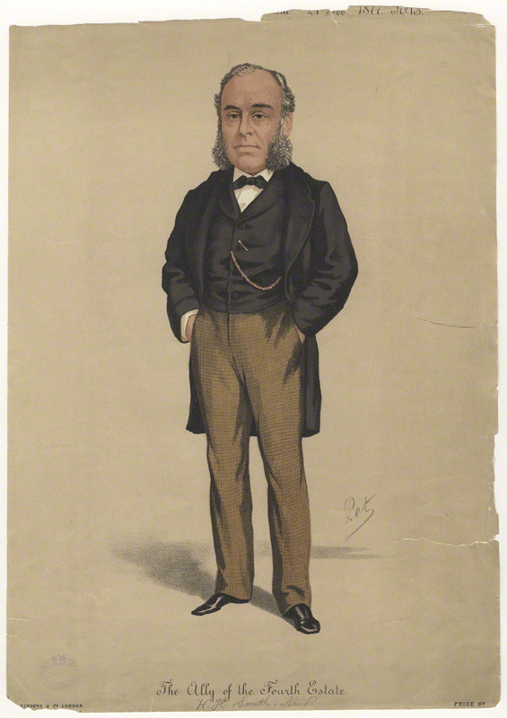 Portrait of William Henry Smith